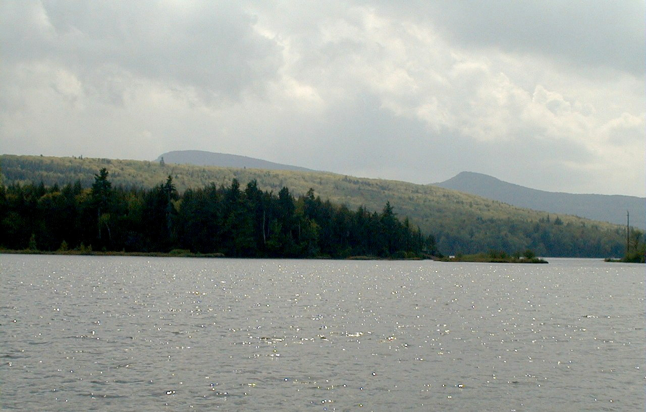 North-South Lake in the Catskills. Taken by User:Mwanner, 21 May, 2005.